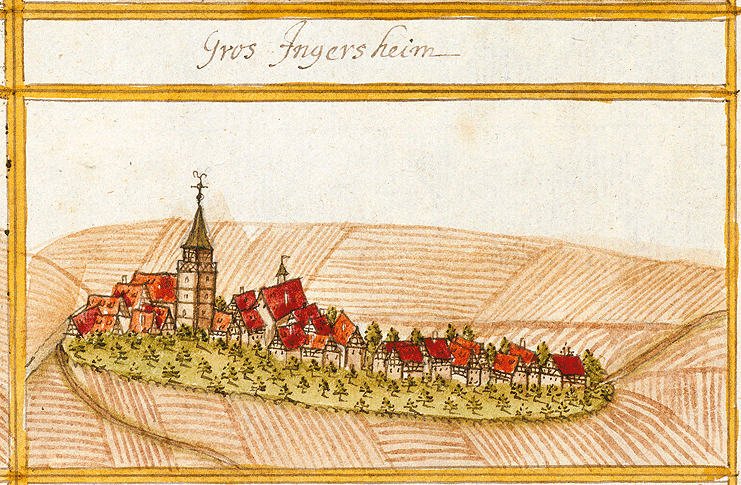 View of Großingersheim, Ingersheim, from the forest register books created by Andreas Kieser